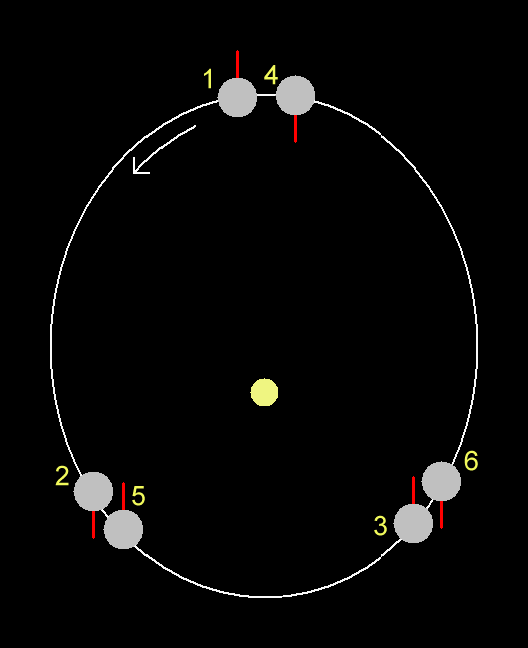 Diagram showing how Mercury's orbital period and rotational period are locked in a 3:2 resonance.